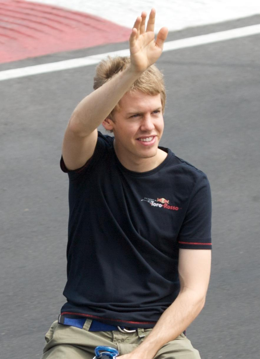 Sebastian Vettel at the 2008 Canadian Grand Prix.